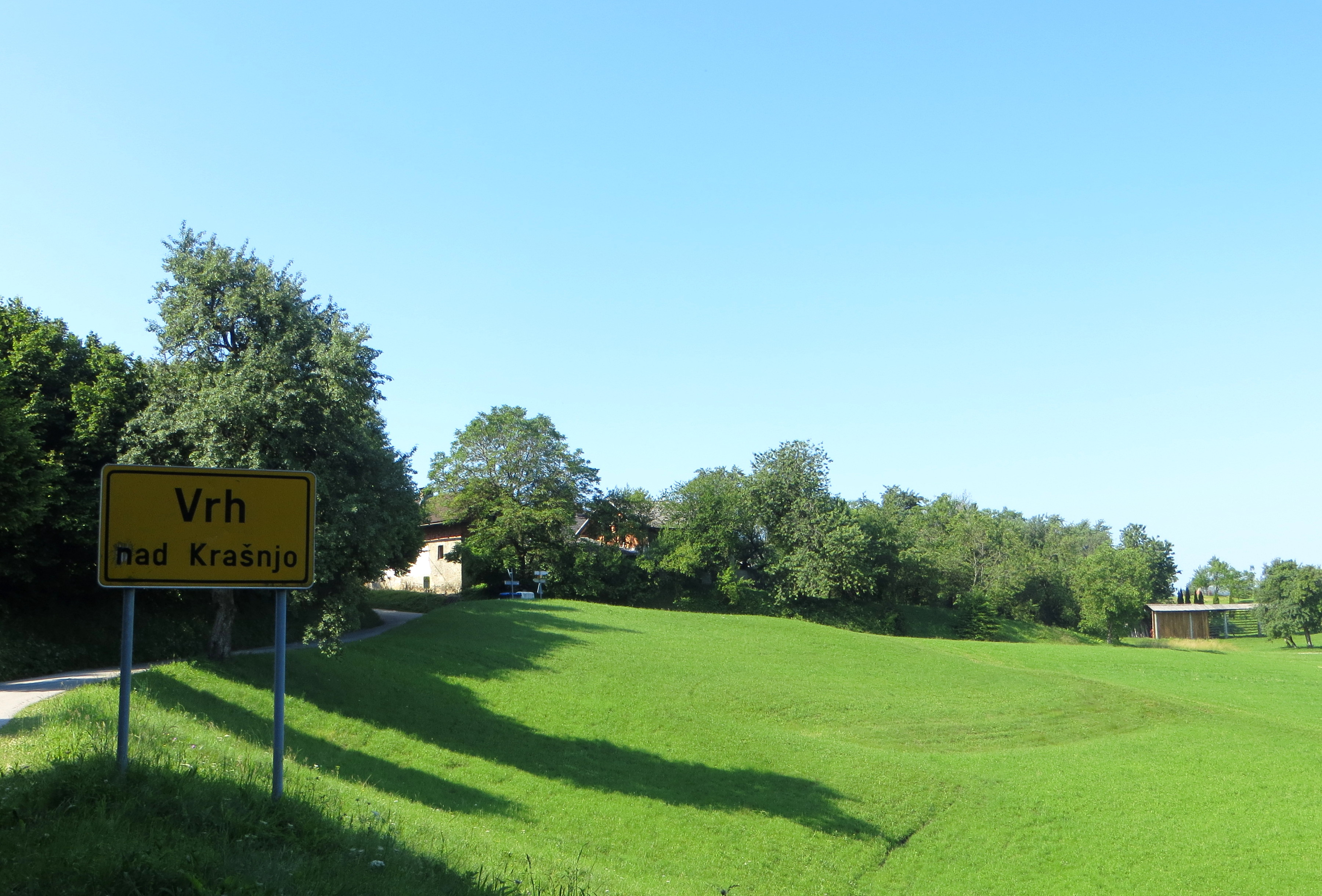 Vrh nad Krašnjo, Municipality of Lukovica, Slovenia